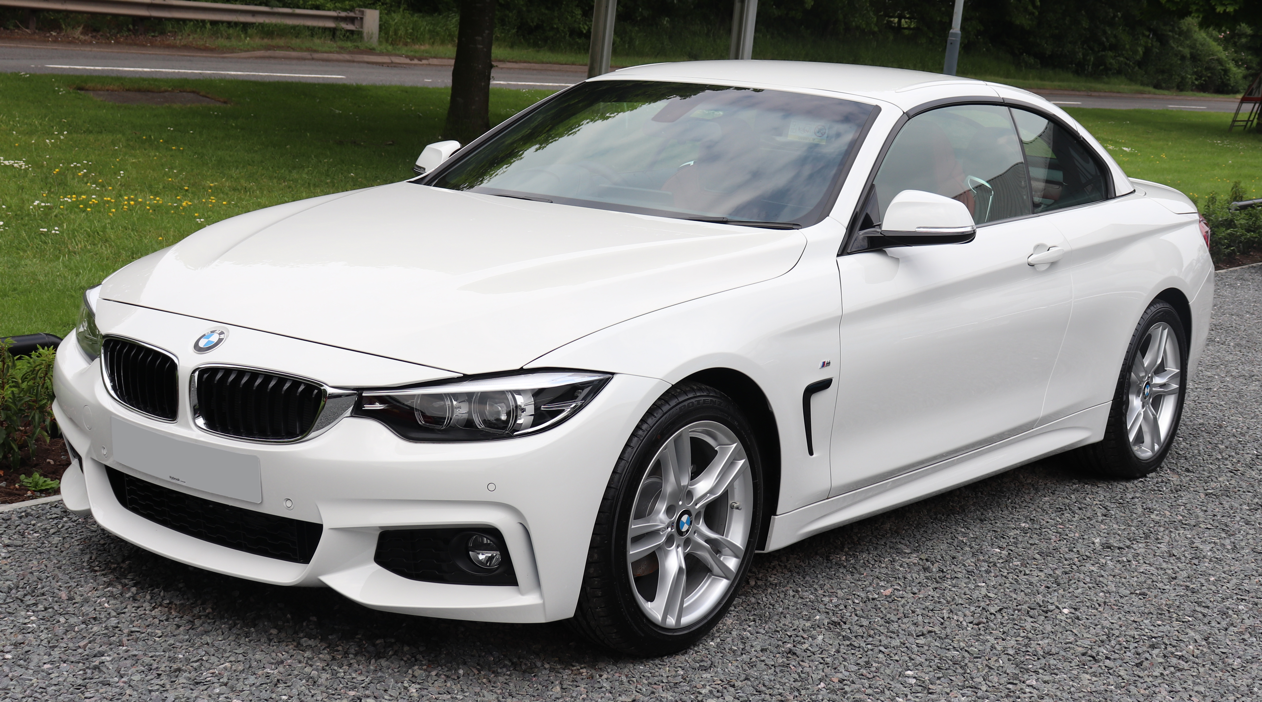 2018 BMW 420i M Sport Automatic 2.0 Front Taken in Rybrook BMW Warwick